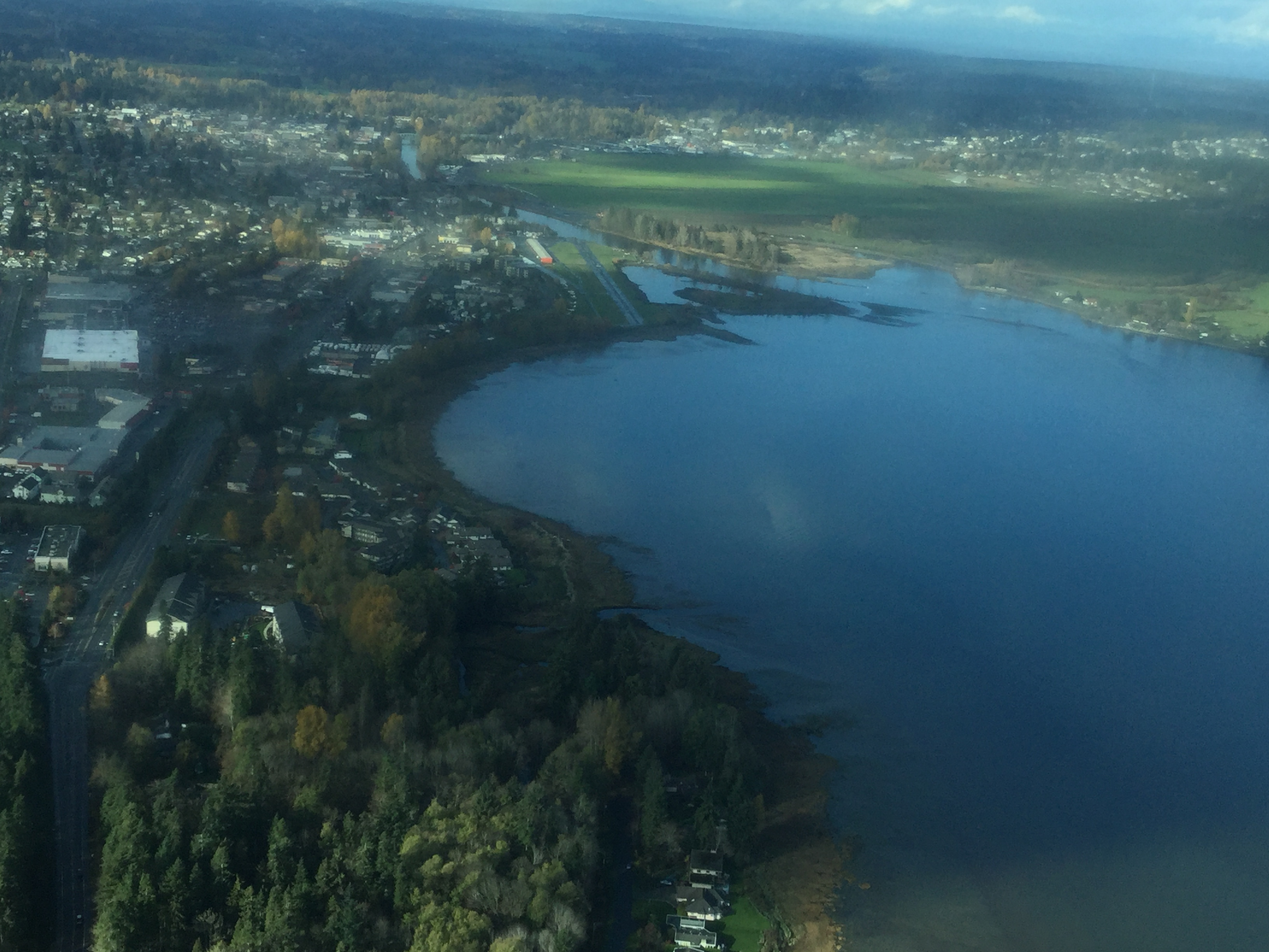 A photo of Courtenay BC Canada taken in 2015 from a Cessna 182